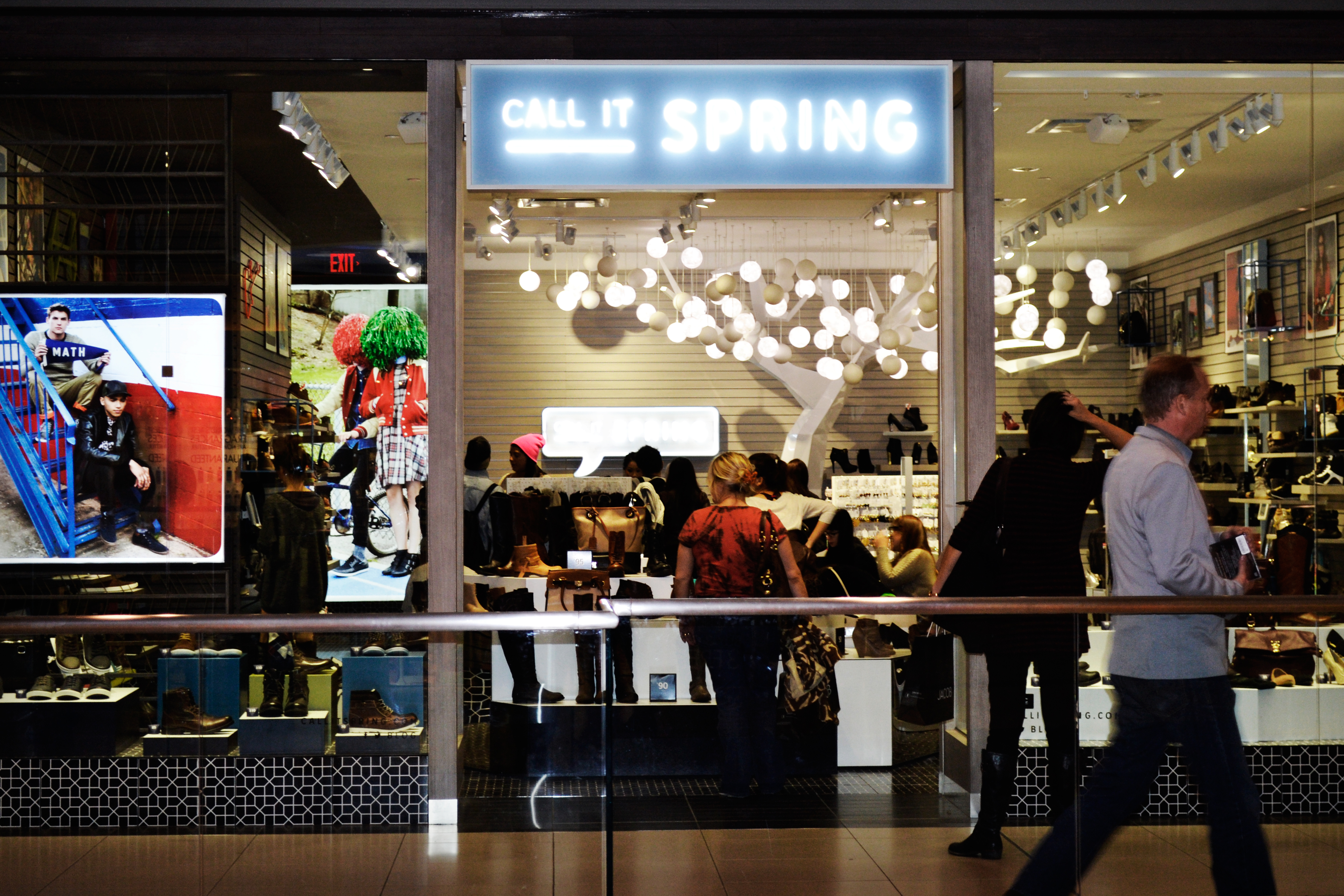 This is a shot of the Call It Spring shoe store in the Eaton Centre in Toronto, Canada. Please credit my site, if you use this image.